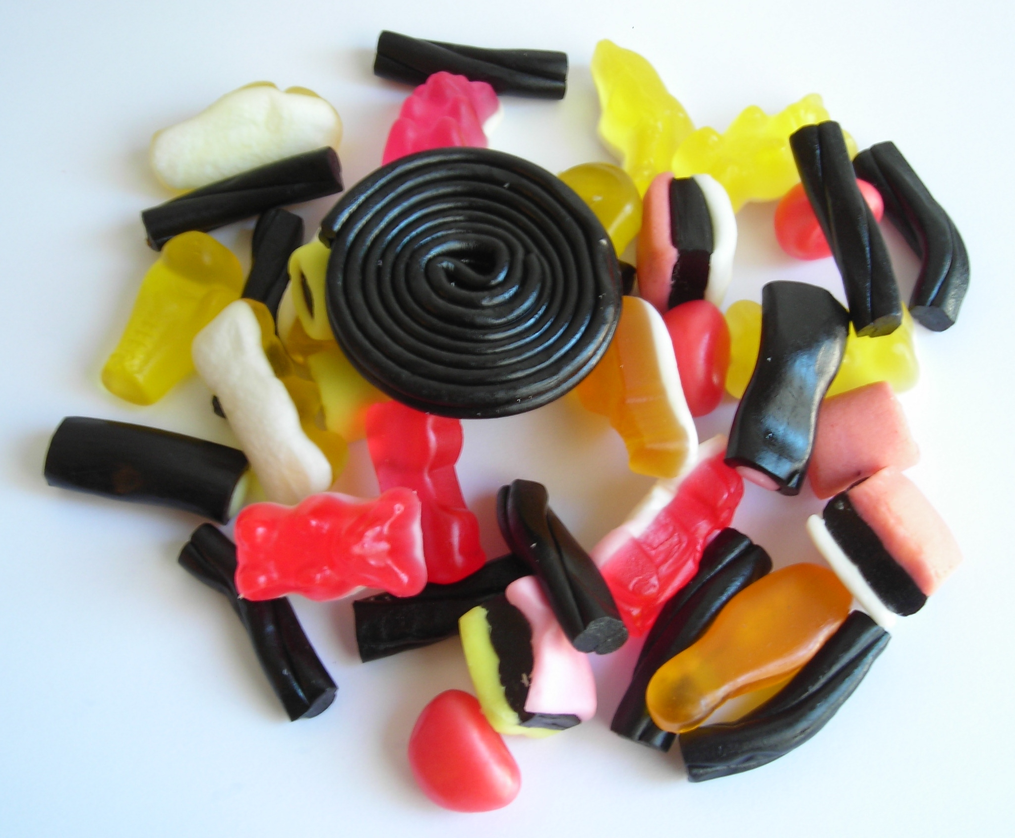 Haribo candies